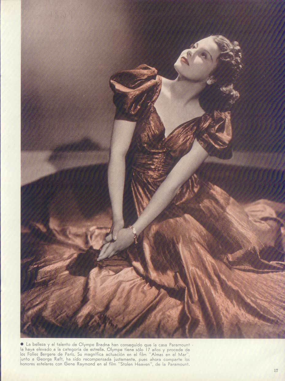 Publicity photo of Olympe Bradna [1] for Argentinean Magazine. (Printed in USA) She appeared in Hollywood films from 1936 to 1941.